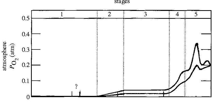 Estimated evolution of atmospheric P O 2 {\displaystyle \ P_{O_{2 } and the concentration of O2 in the shallow and deep oceans. The stages are: stage 1 (3.85–2.45Gyr ago (Ga)), stage 2 (2.45–1.85Ga), stage 3 (1.85–0.85Ga), Stage 4 (0.85–0.54Ga )and stage 5 (0.54Ga–present)